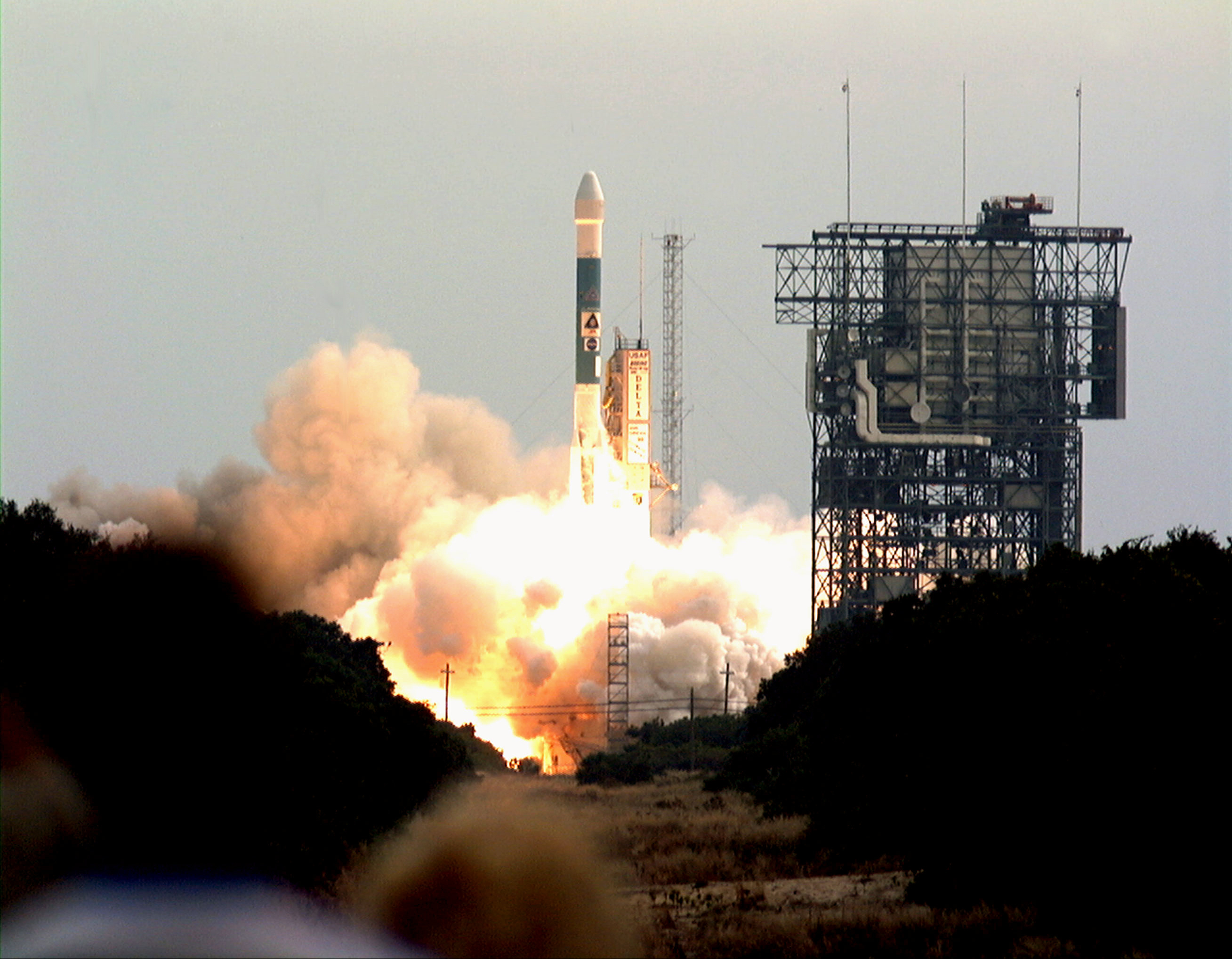 Launch of the Delta II 7425 carrying the Mars Polar Lander and Deep Space 2.